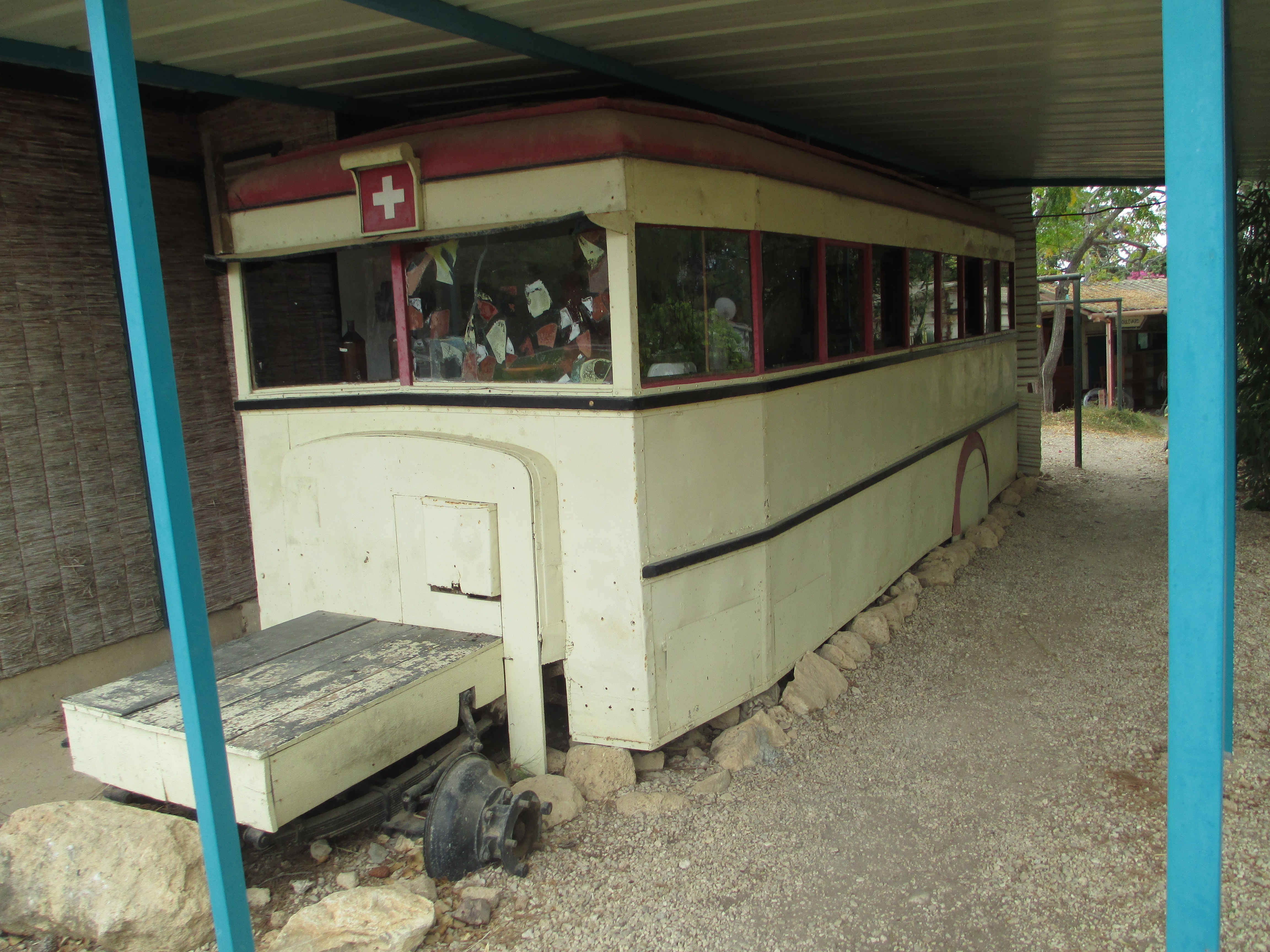 Bus Museum in Ness Ammim